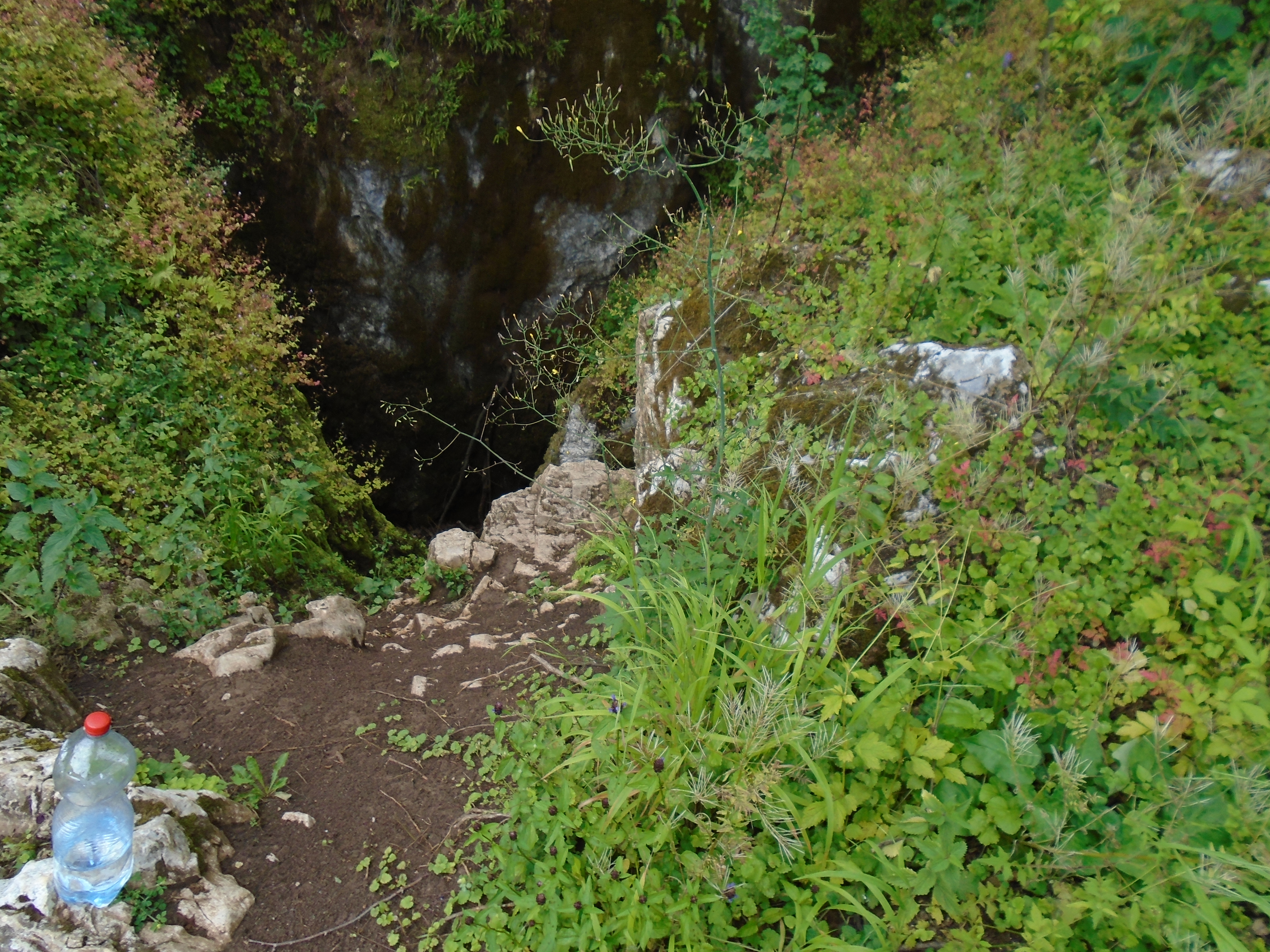 Entrance of Szabó-pallag Pothole in Bódvaszilas.